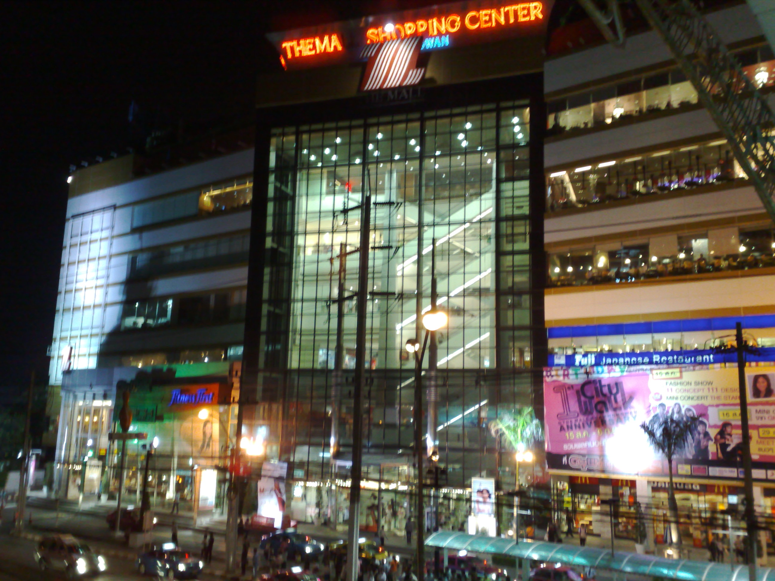 The Mall Ngamwongwan August 2009.